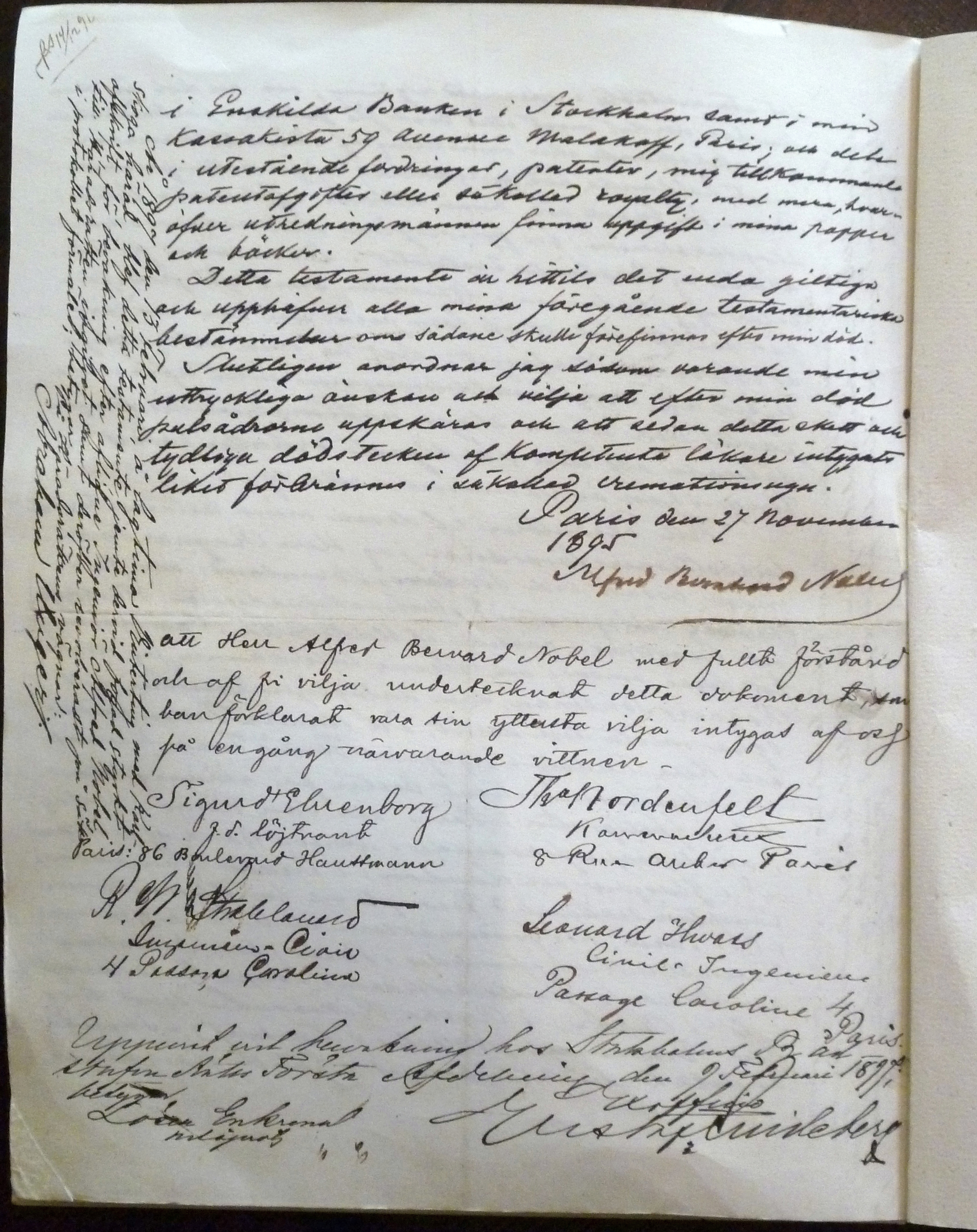 Alfred Nobel's will, 27 November 1895, page 4